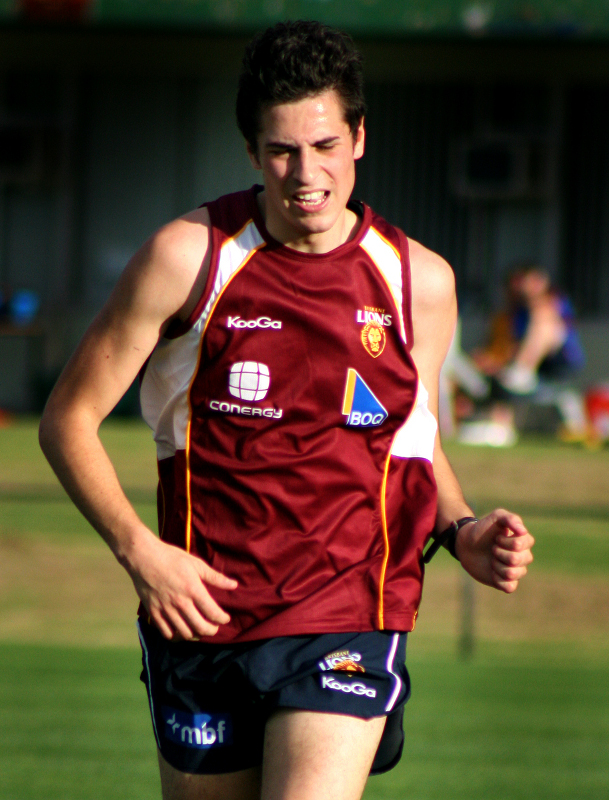 Patrick Karnezis at a Brisbane Lions pre-season training session. November 2010.